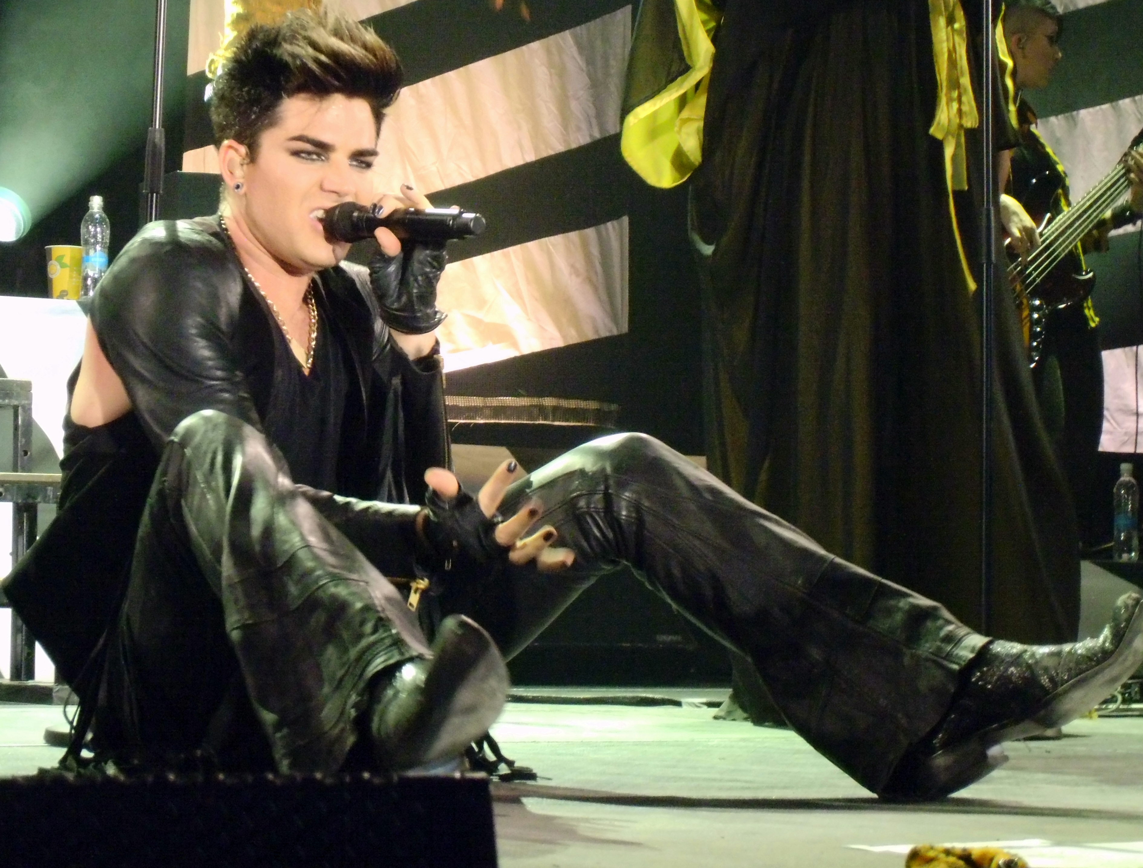 Adam Lambert - We Are Glamily Tour (Helsinki, Finland)